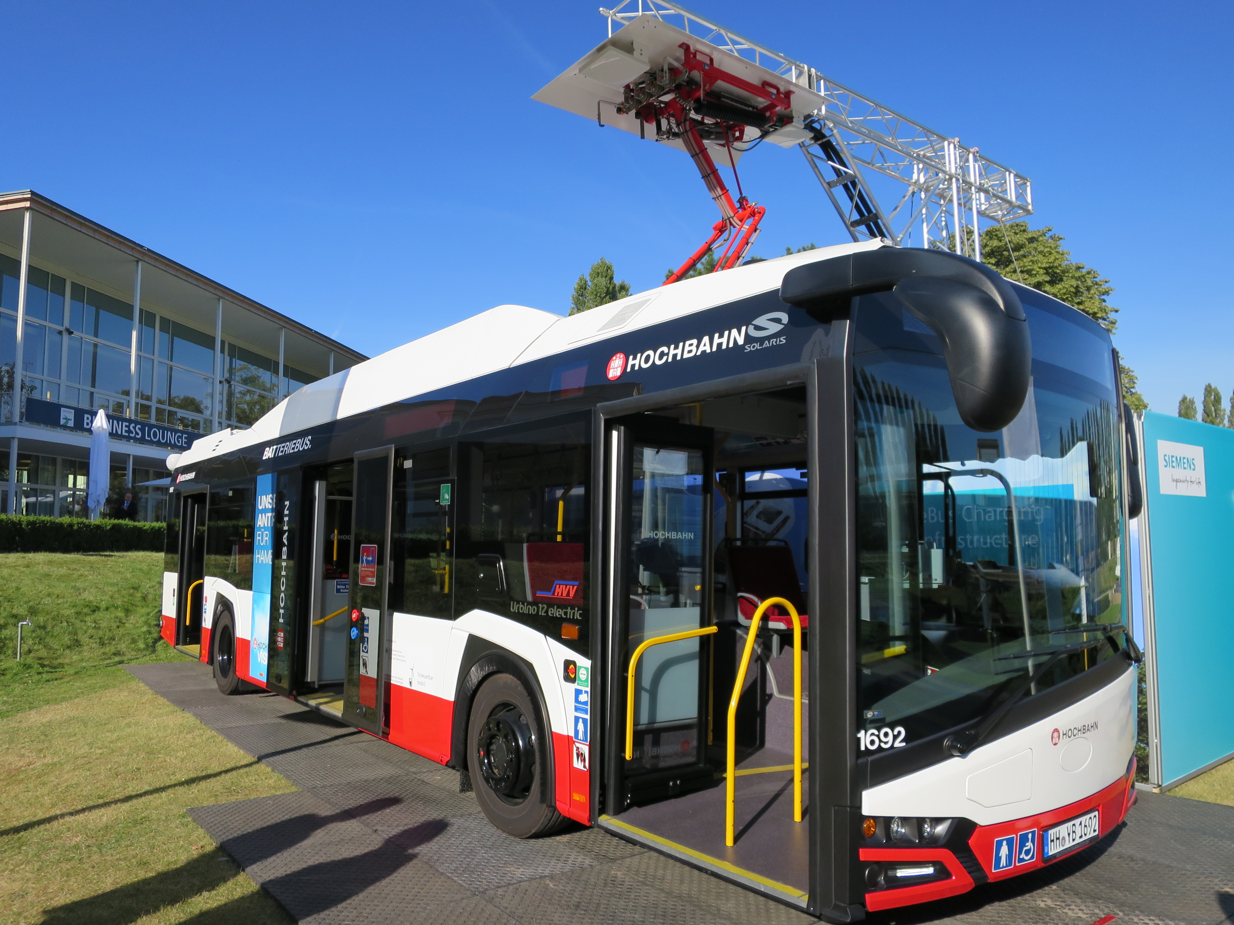 InnoTrans 2016 - Solaris Urbino 12 electric z pantografowym systemem ładowania The making of this document was supported by Wikimedia Polska Association, within Wikigrant no. WG 2016-35.